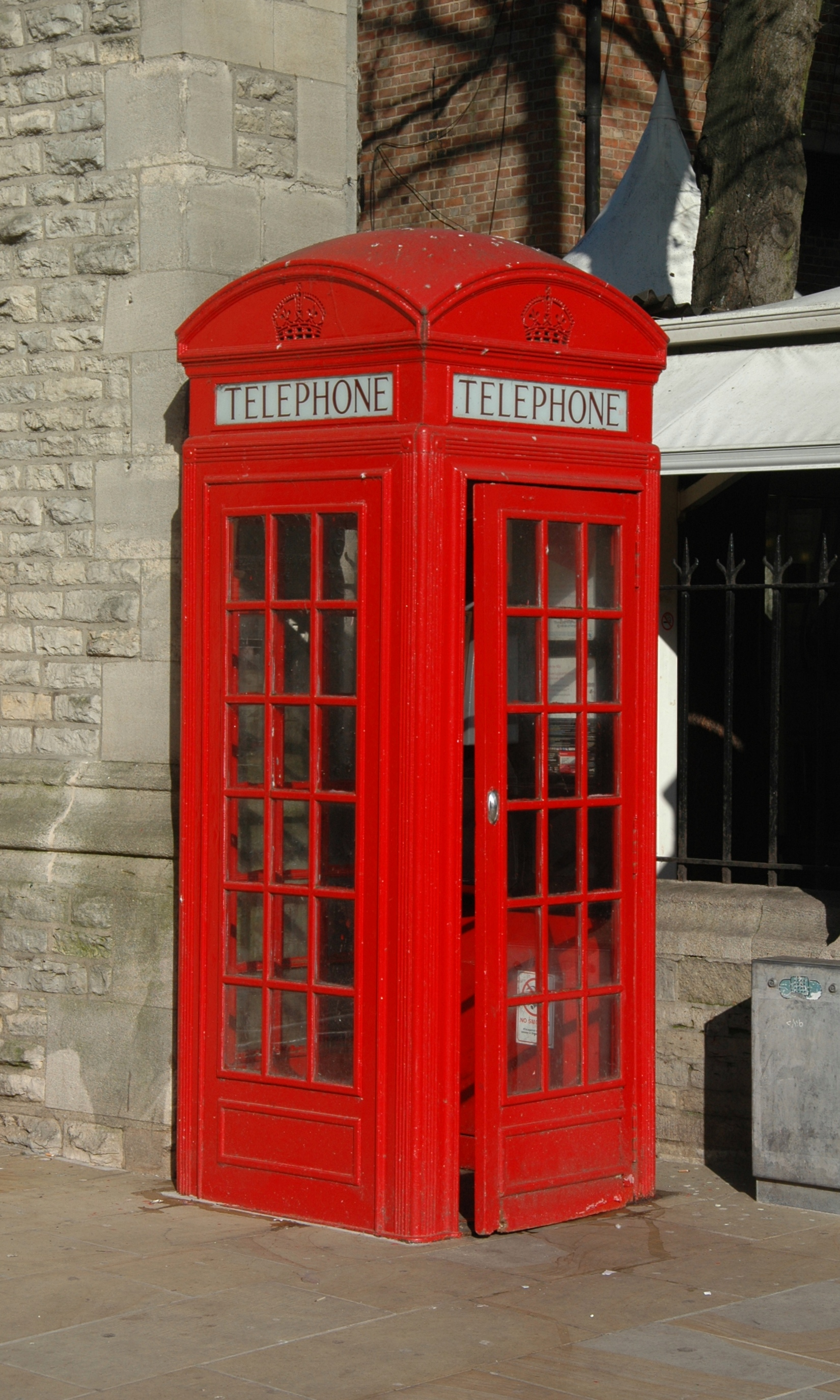 K2 telephone kiosk at Carfax, Oxford: view from the southeast